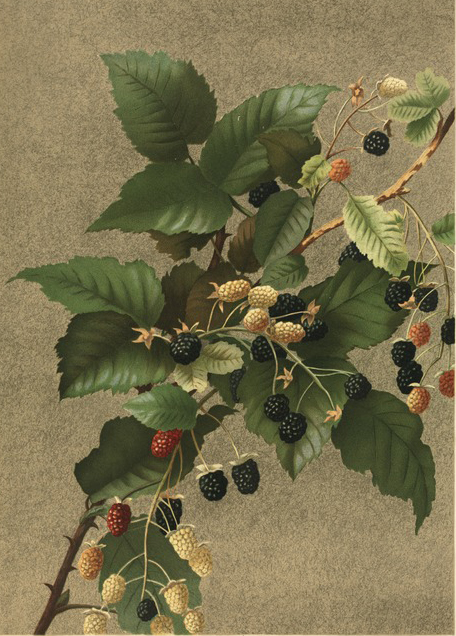 Blackberries by Ellen Thayer Fisher Dated between 1861 and 1897